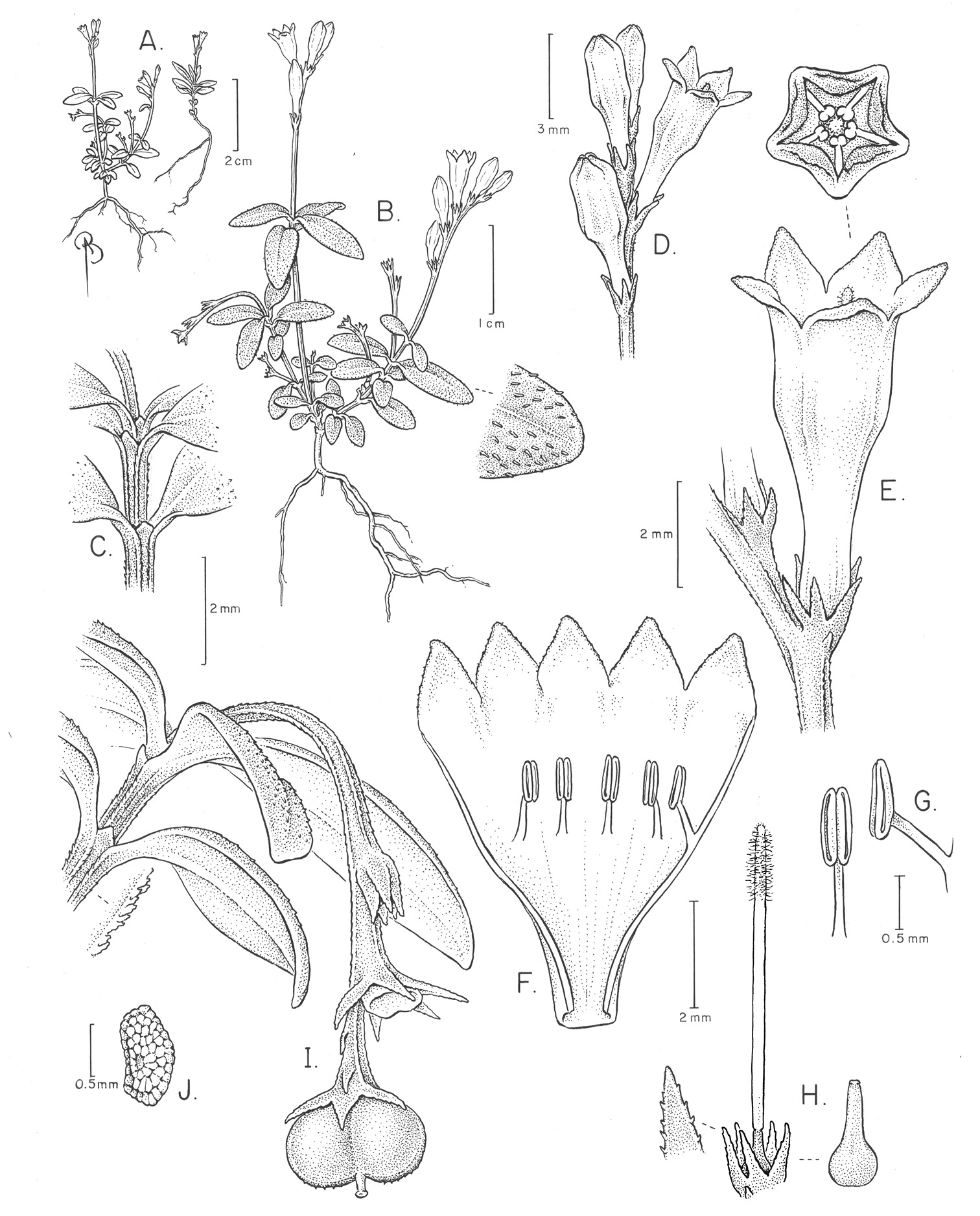 Spigelia genuflexa A–B Habit, showing inflorescences and geocarpic infructescenses, and close-up of apical part of leaf with apressed papilloid hairs C Close-up of node and internode, showing small triangular interpetiolar stipules D Flowers before and at anthesis E Close-up of flower at anthesis; note diminutive bract F Opened corolla with epipetalous stamens G Stamen inserted into corolla and introrse anther H Gynoecium inside papillose calyx, with hairy style (brush-type); older gynoecium, after style has dried and fallen off to the right I Geocarpic infructescence branch with one whole capsule (mitra-shaped, with small style remnant in center), and capsular base of the fruit that has dehisced, above it J Seed. Drawing by Bobbi Angell, based on A.V. Popovkin 602 and 602A.